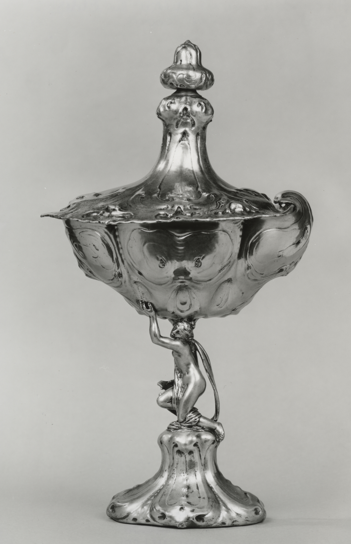 This beautiful ceremonial cup for wine is made of gilded silver, combining the aesthetic qualities of gold with the greater strength of silver. The undulating, embossed shapes that seem drawn from the underwater world are characteristic of Johannes Lutma, one of the greatest Dutch silversmiths. They also convey the aesthetics of the wider European baroque, reminding us that the initial use of "baroque" was for an irregular but lustrous pearl. Such a cup would be displayed when not in use.